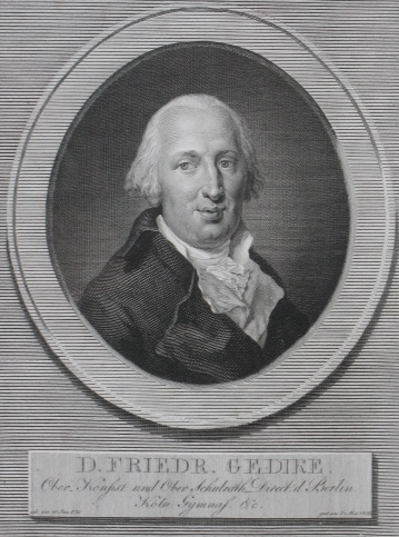 Portraiit of Friedrich Gedike (1754-1803)